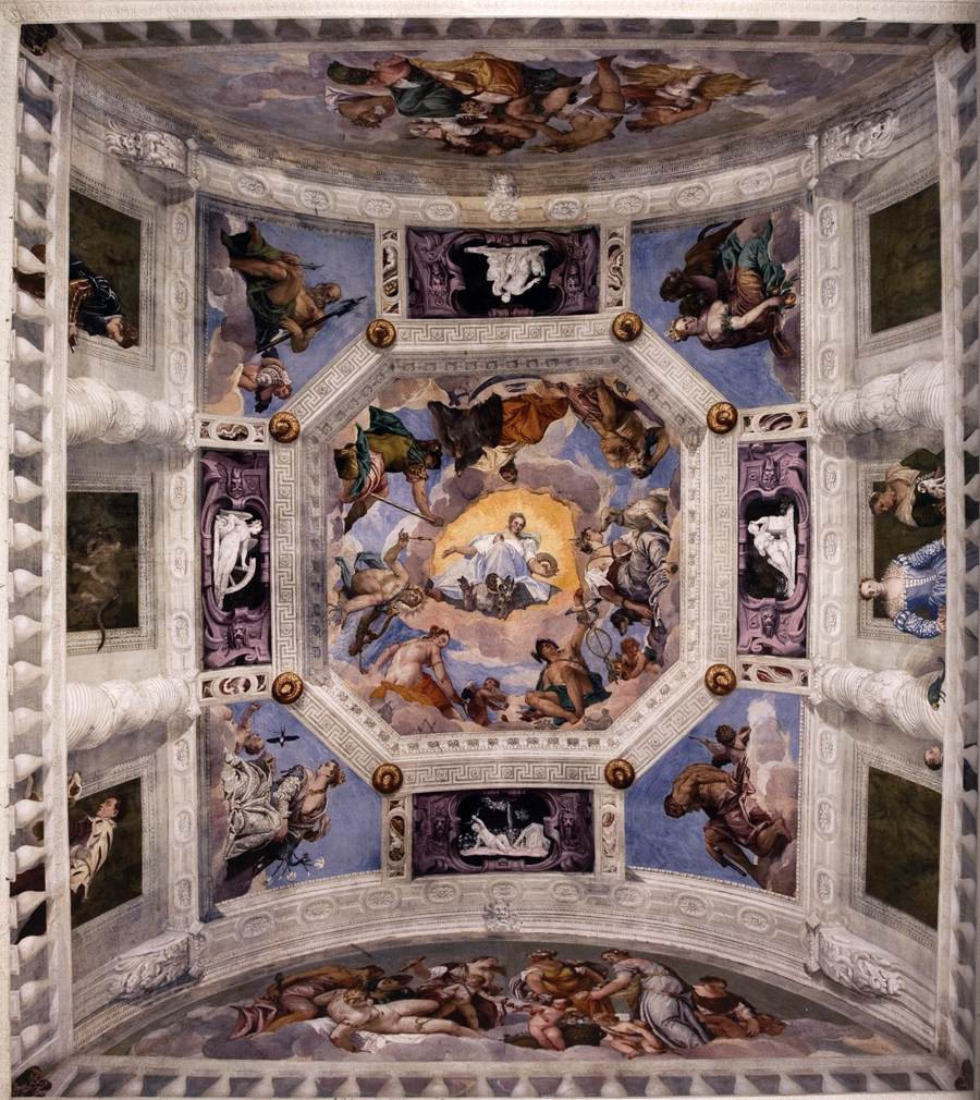 Ceiling of the Sala dell'Olimpo